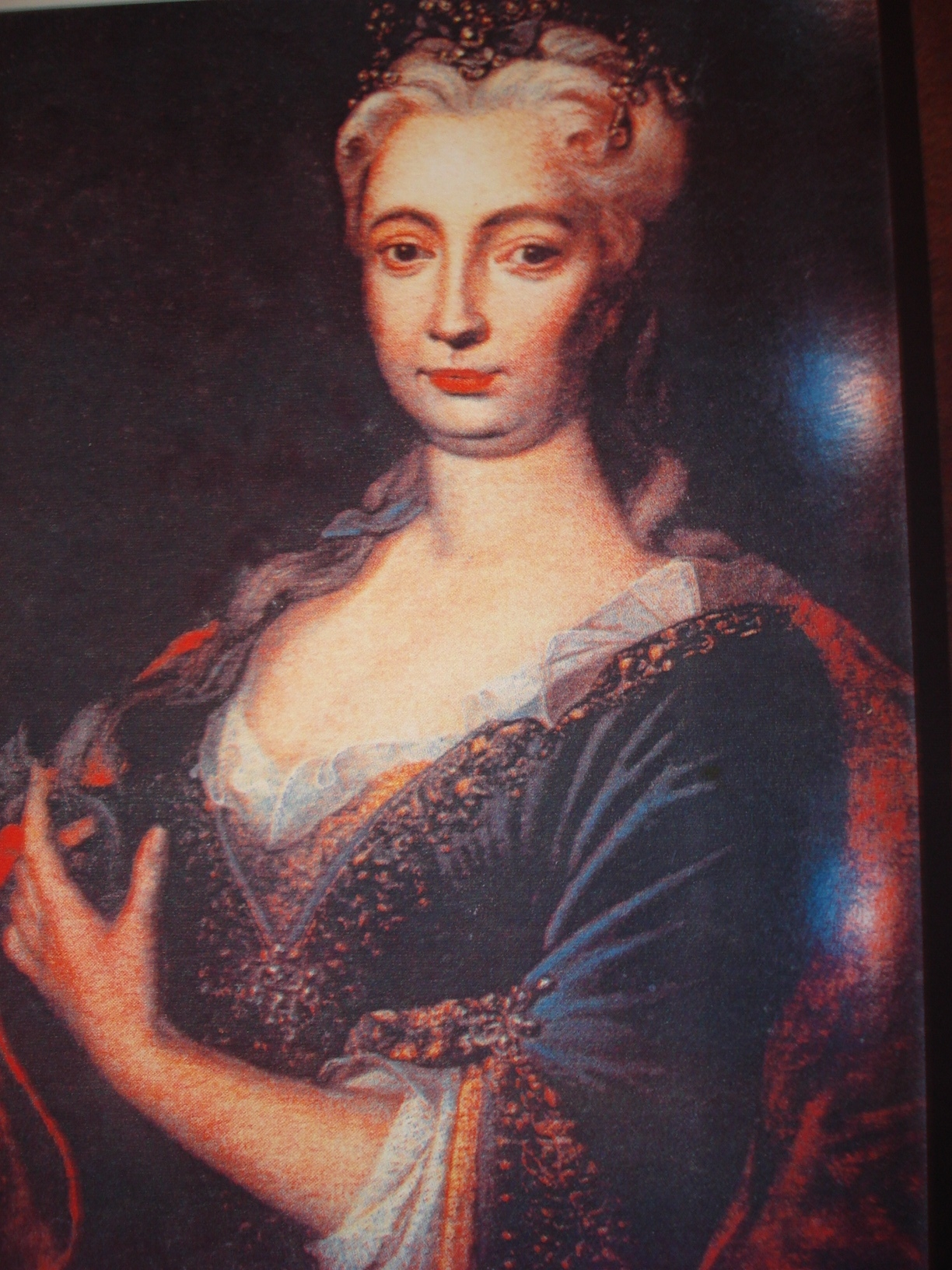 Portrait of countess Ana Maria Josepha Pignatelli Althann (1689-1755), wife of count Johann Michael von Althann, Austrian aristocrat, owner of Medjimurje (northern Croatia)